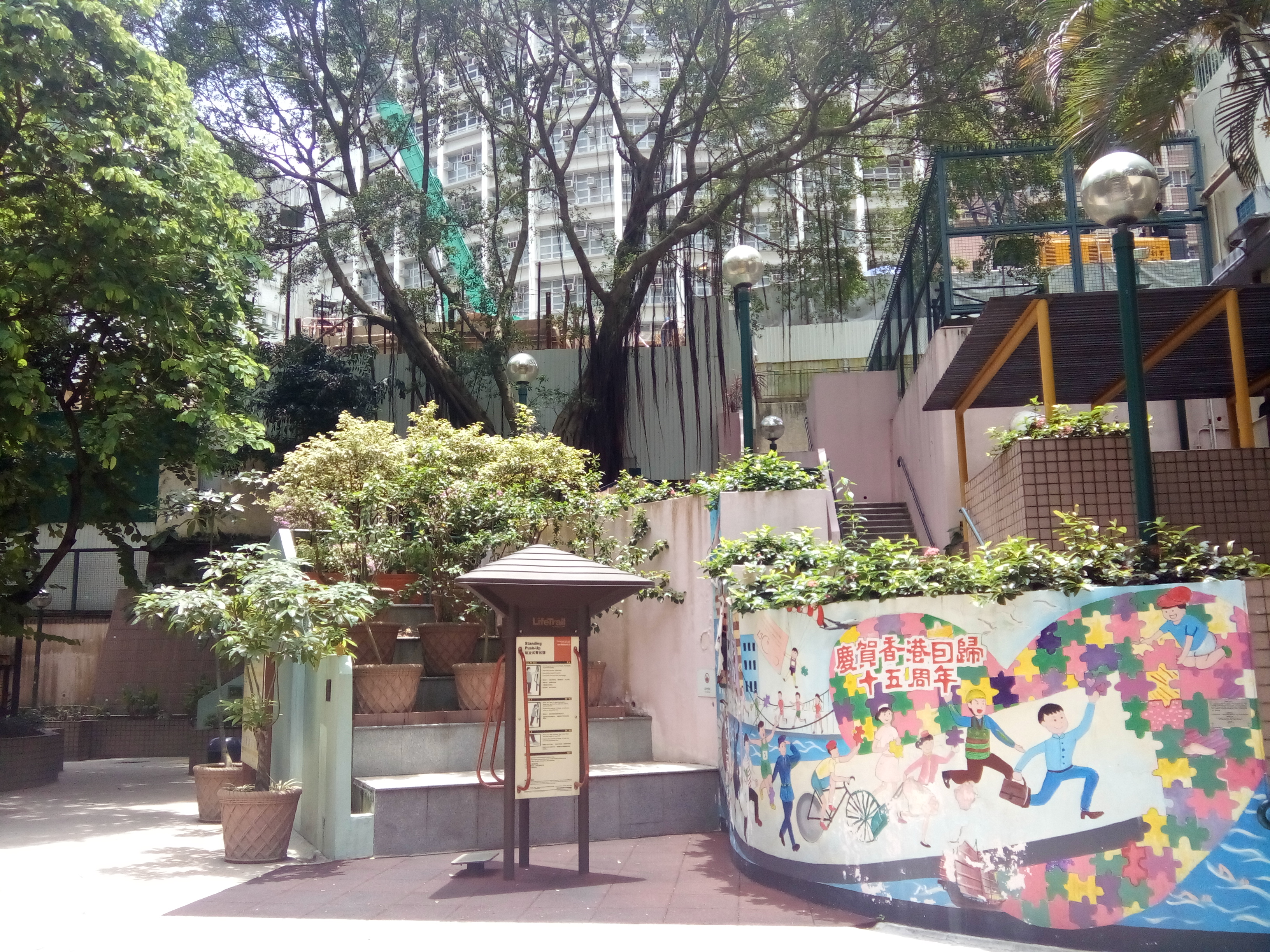 HK 西營盤 Sai Ying Pun 第三街遊樂場 Third Street Playground 公園 LCSD park green plants n trees August 2017 Lnv2